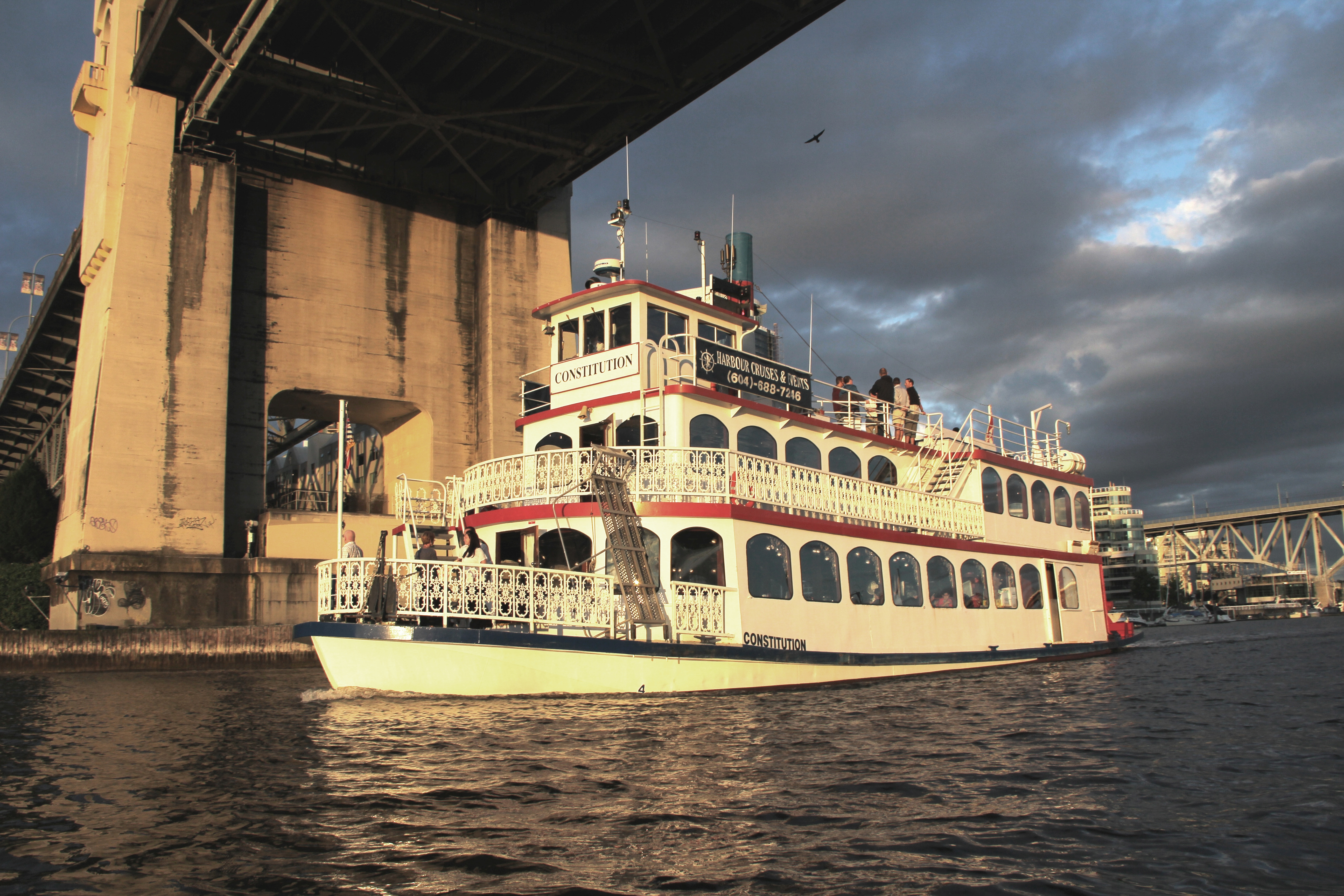 MPV Constitution